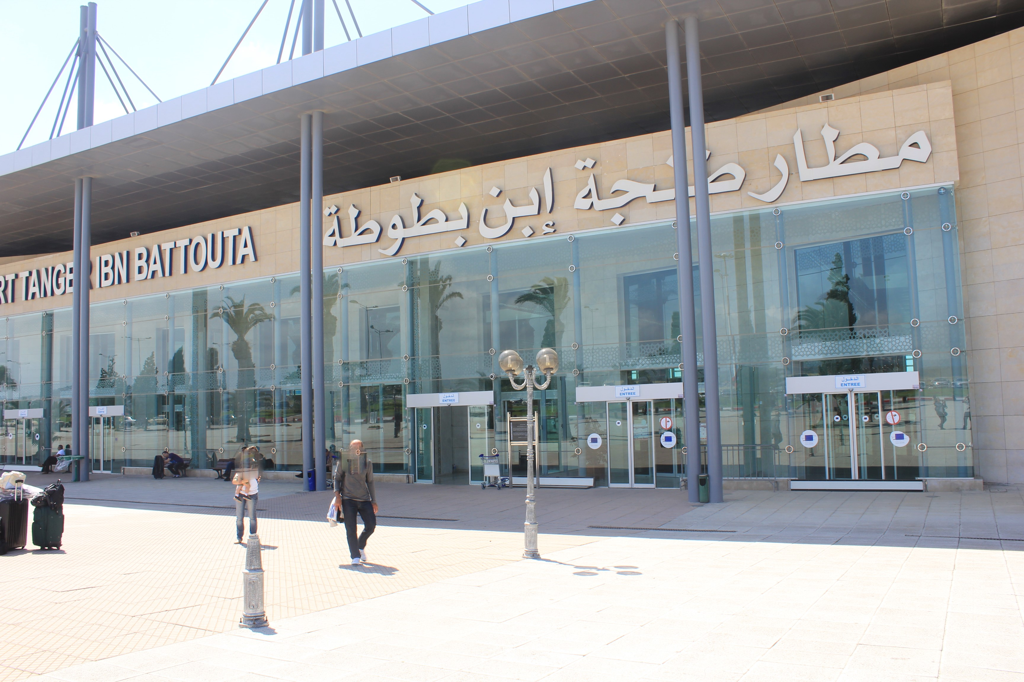 Tangier - Ibn Batouta Airport entrance